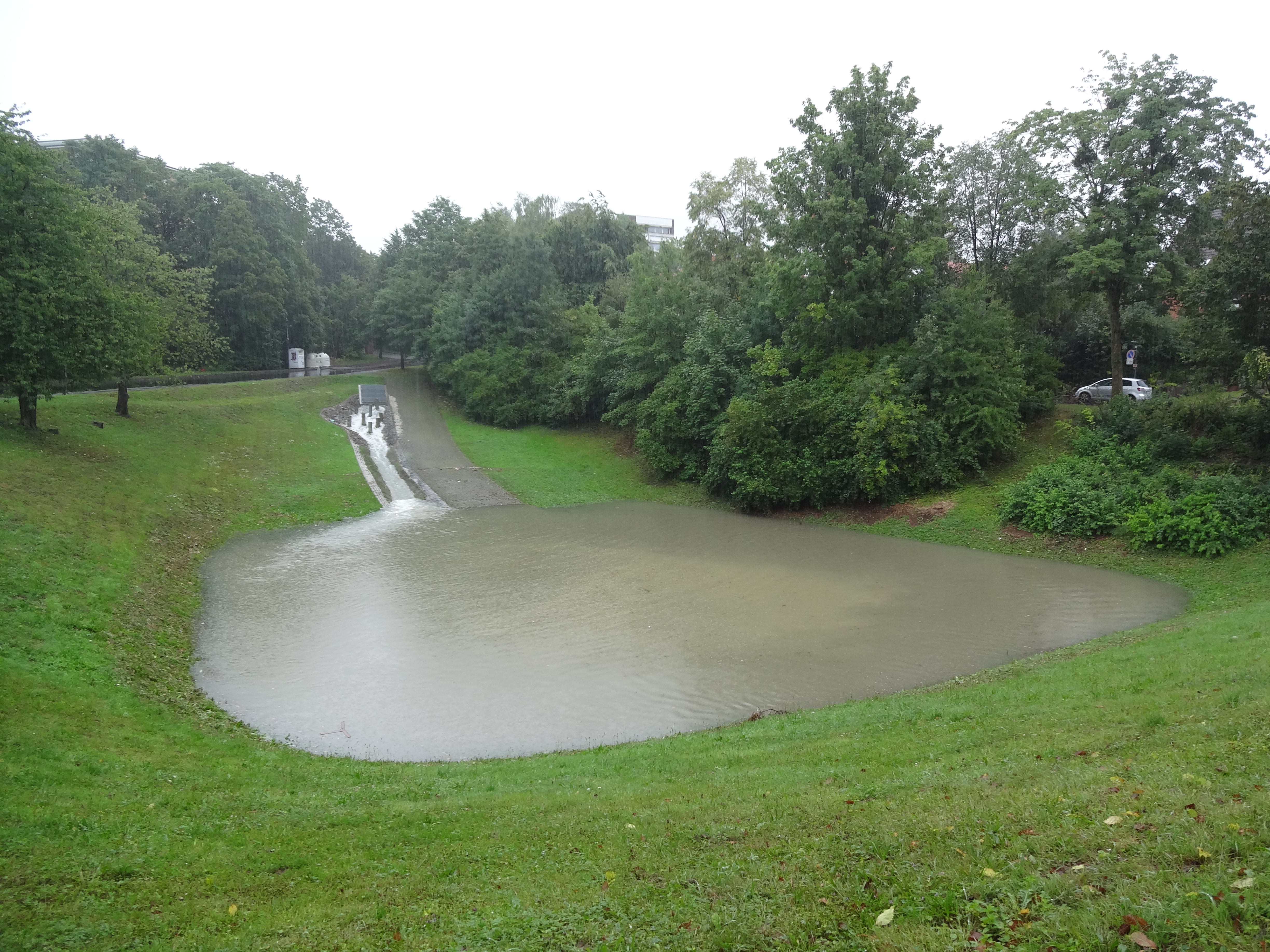 The detention basin at Sandersbeek road in Göttingen–Geismar, seen from its northwest corner during a heavy rain event on August 17 2015.